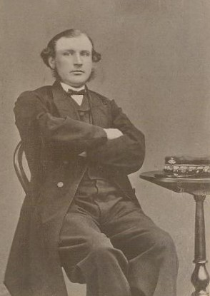 Photo of Julius Mankell (1828-1897) a military historian and Swedish politician.